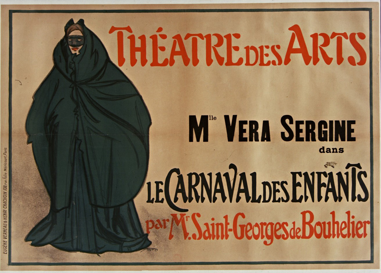 Théatre des Arts poster for le Carnaval des Enfants (1910) by Maxime Dethomas. Printed by Eugène Verneau and Henri Chachoin (Paris). Measures: 0,89 x 1,26 m. Premiered November 25th, 1910.